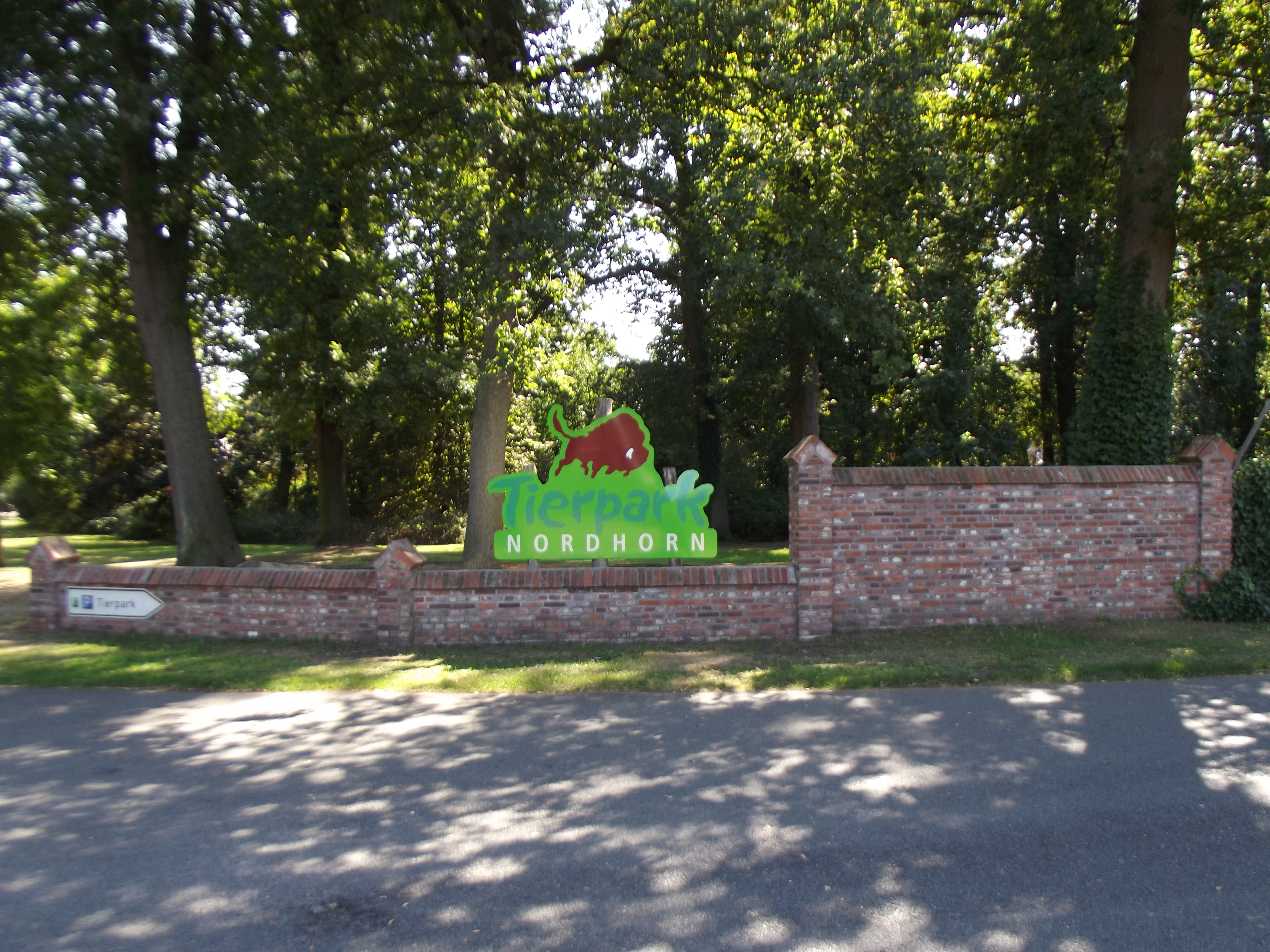 The pic shows the trademark of Nordhorn's animal park